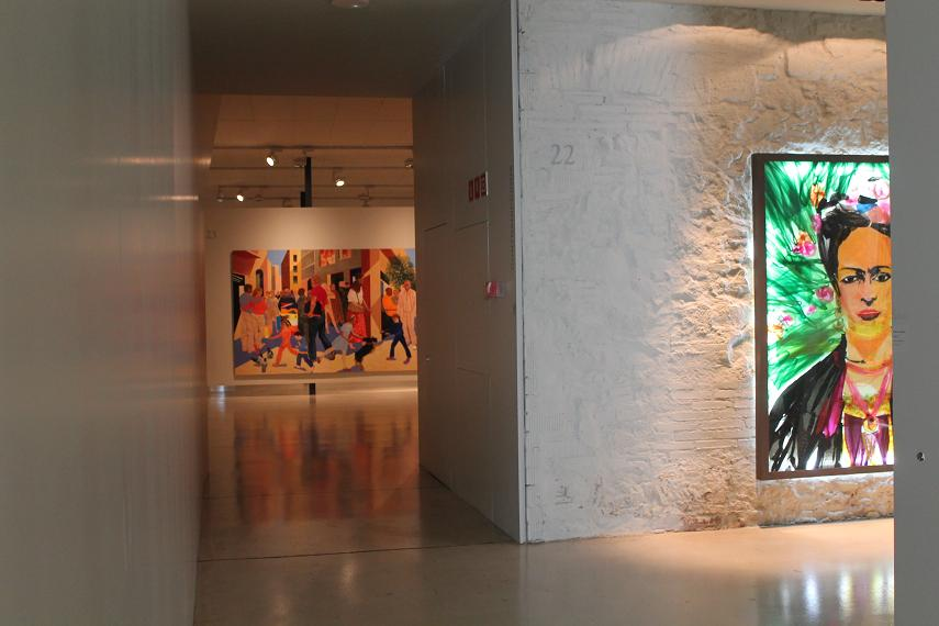 First floor, Can Framis, Inside the Can Framis Museum (2015)